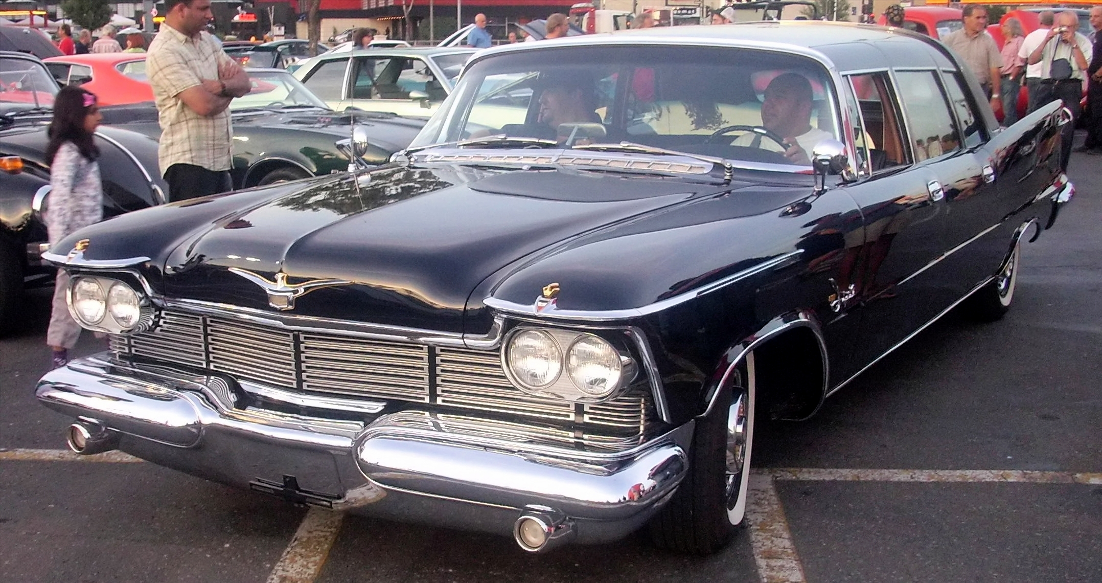 Crown Imperial Limousine by Ghia, photographed in Montreal, Quebec, Canada at Gibeau Orange Julep.